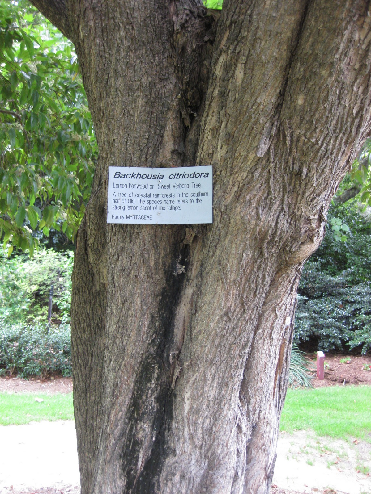 Photographed at the Royal Botanic Gardens Sydney (Australia) in January